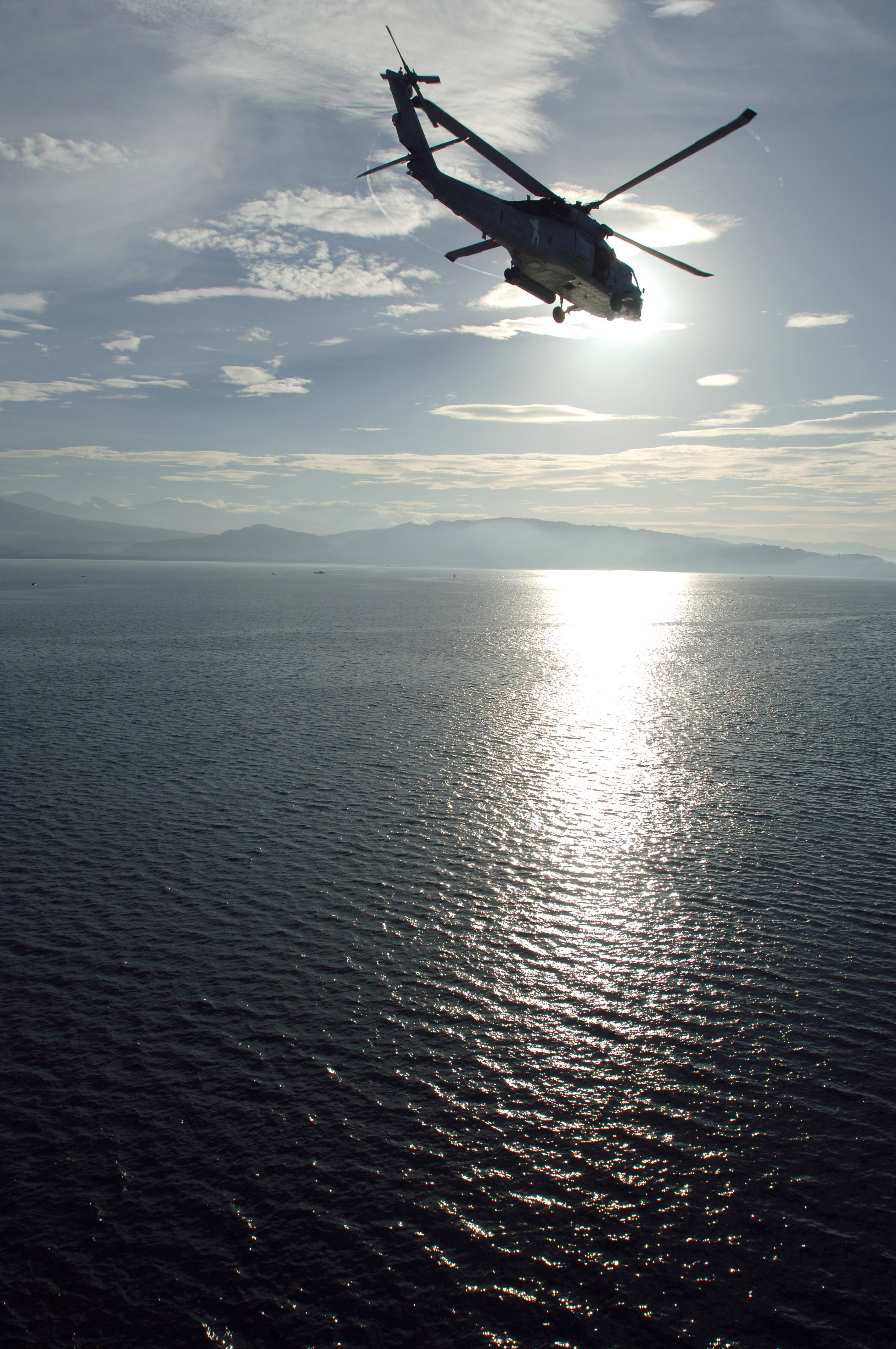 COTABATO, Philippines (June 9, 2008) A MH-60S helicopter assigned to Helicopter Combat Squadron (HSC) 21, based out of San Diego, Calif., flies over Illana Bay, Philippines towards a Pacific Partnership medical civic action program. The Pacific Partnership team of regional partners, non-governmental organizations (NGOís), military engineers, doctors and healthcare providers has been asked by the government of the Philippines to conduct various medical, dental and civic-action programs in the area. U.S. Navy photo by Chief Mass Communications Specialist Jon Gesch (Released)